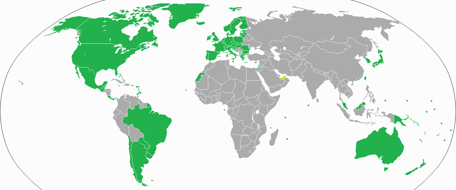 Visa policy of Gibraltar